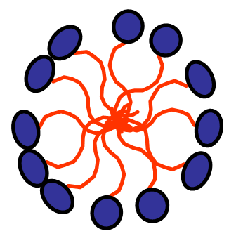 Schematic of a micelle